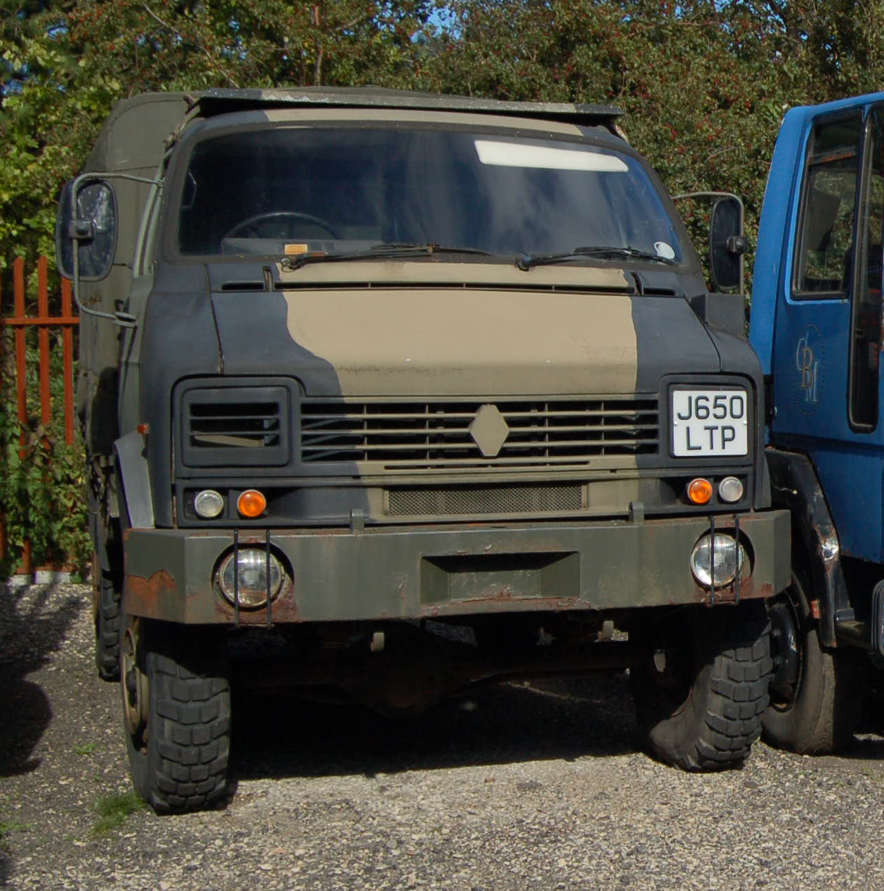 4x4 Renault/Dodge 50 series of the British army, seen at the Shildon Lorry Museum in 2009.